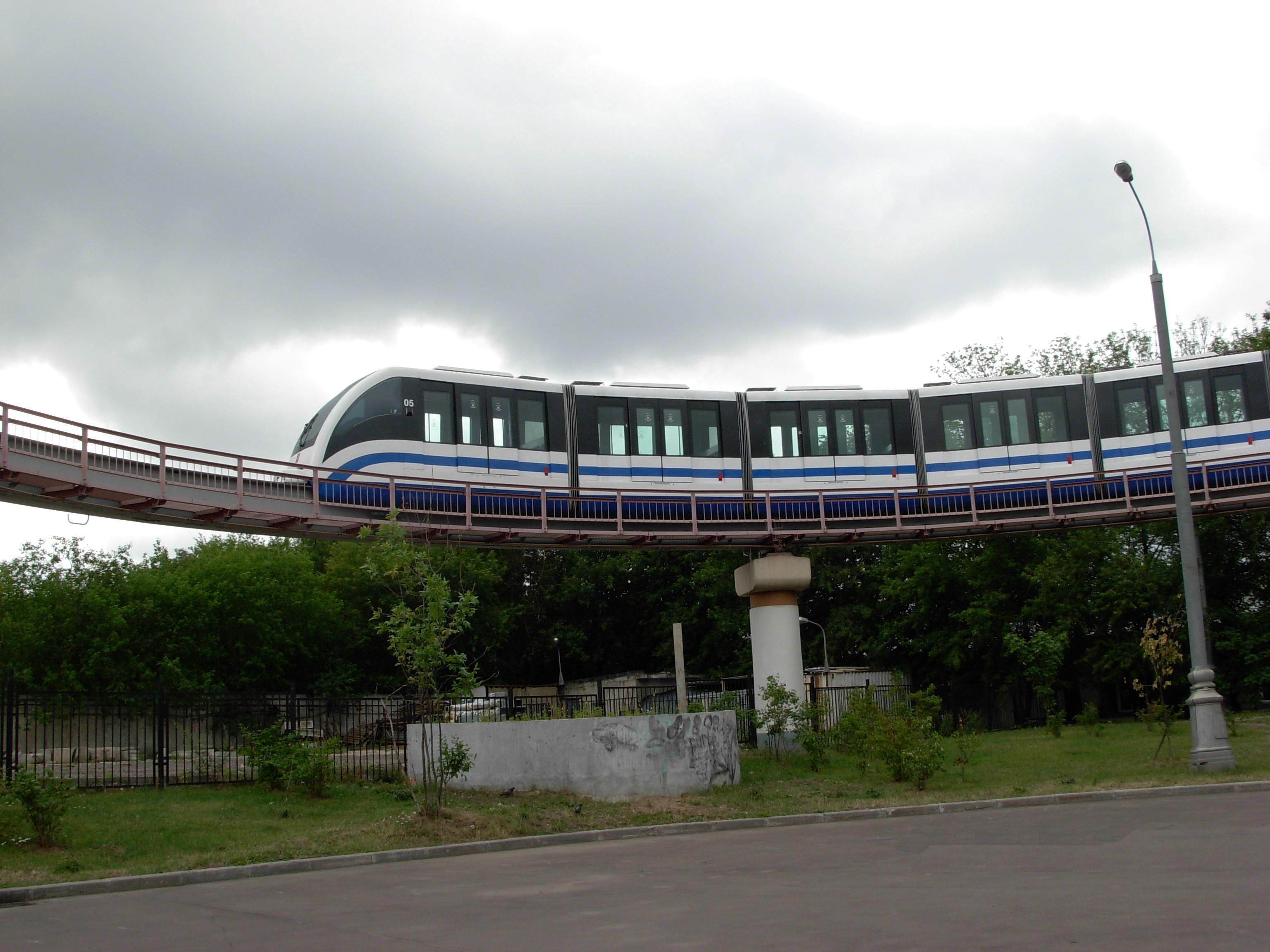 Moscow monorail train staying at Timiryazeskaya station.